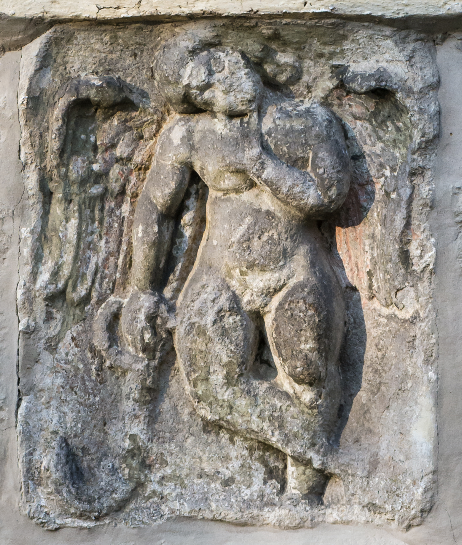 Roman Mourning Genius (3rd century), St. Laurent Church near Neulengbach-Markersdorf, Lower Austria